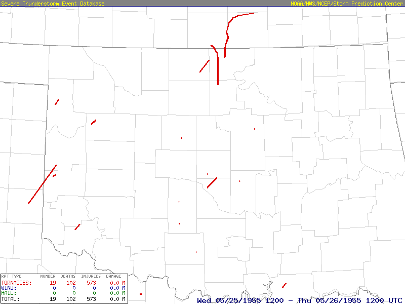 Map depicting Oklahoma tornado tracks on May 25-26 during the 1955 Great Plains tornado outbreak.